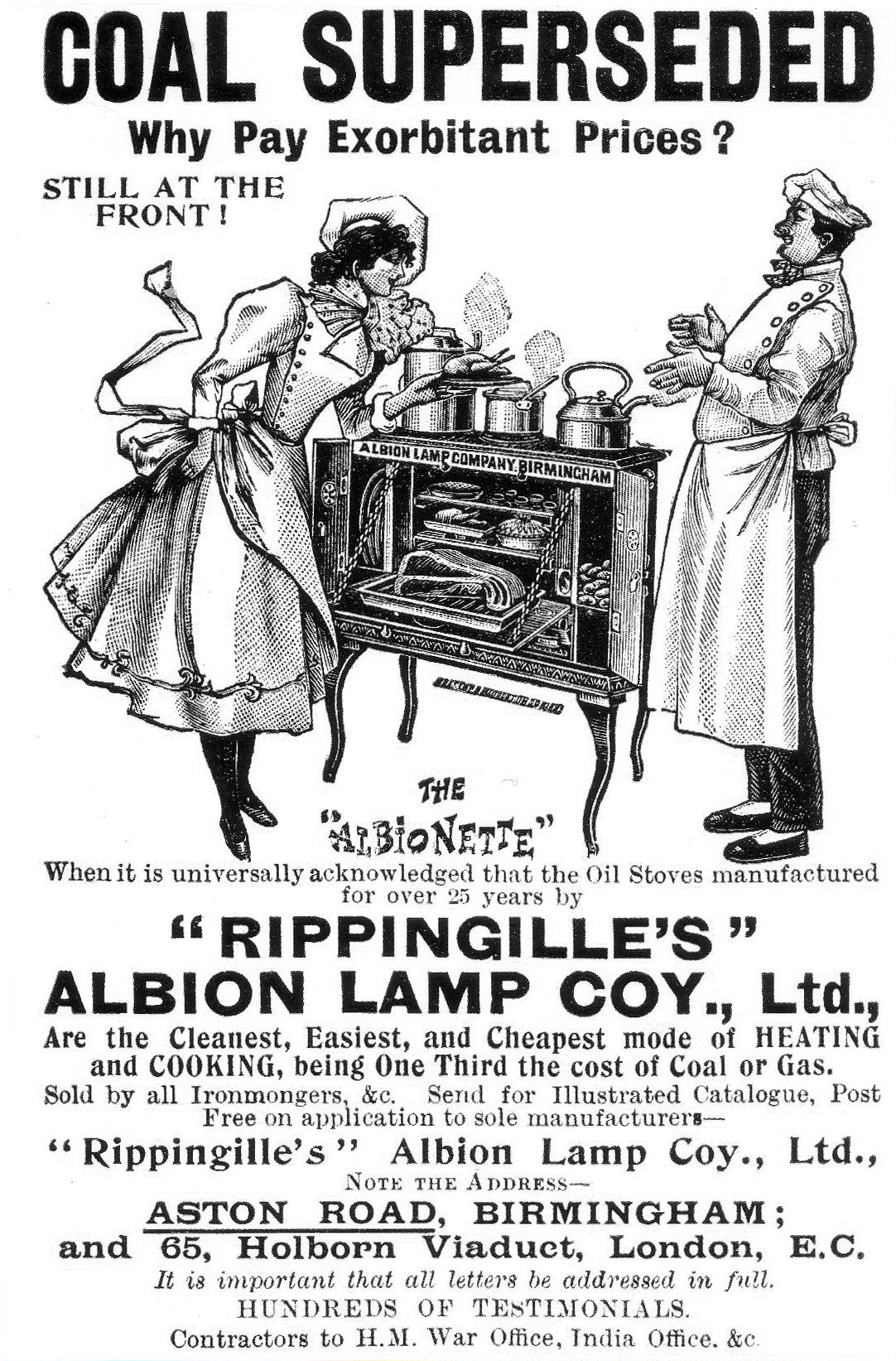 Advert for an oil stove, from the Albion Lamp Company, Birmingham, England.